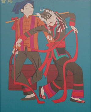 In Beijing Niu Jie (Cow Street), across the street from the Niujie Mosque. An entire block - probably, a construction site - is fenced with a capital wall, decorated with a block-long poster wrapping around the block and depicting all 56 "recognized" ethnic groups of China (including Han) forming "The great united family of peoples" (民族团结大家庭). The figures are arranged mostly in Pinyin alphabetic order from right to left; the section is in the photo shows the following ethnic groups: Gelao (仡佬) (right) and She people 畲族 (left)